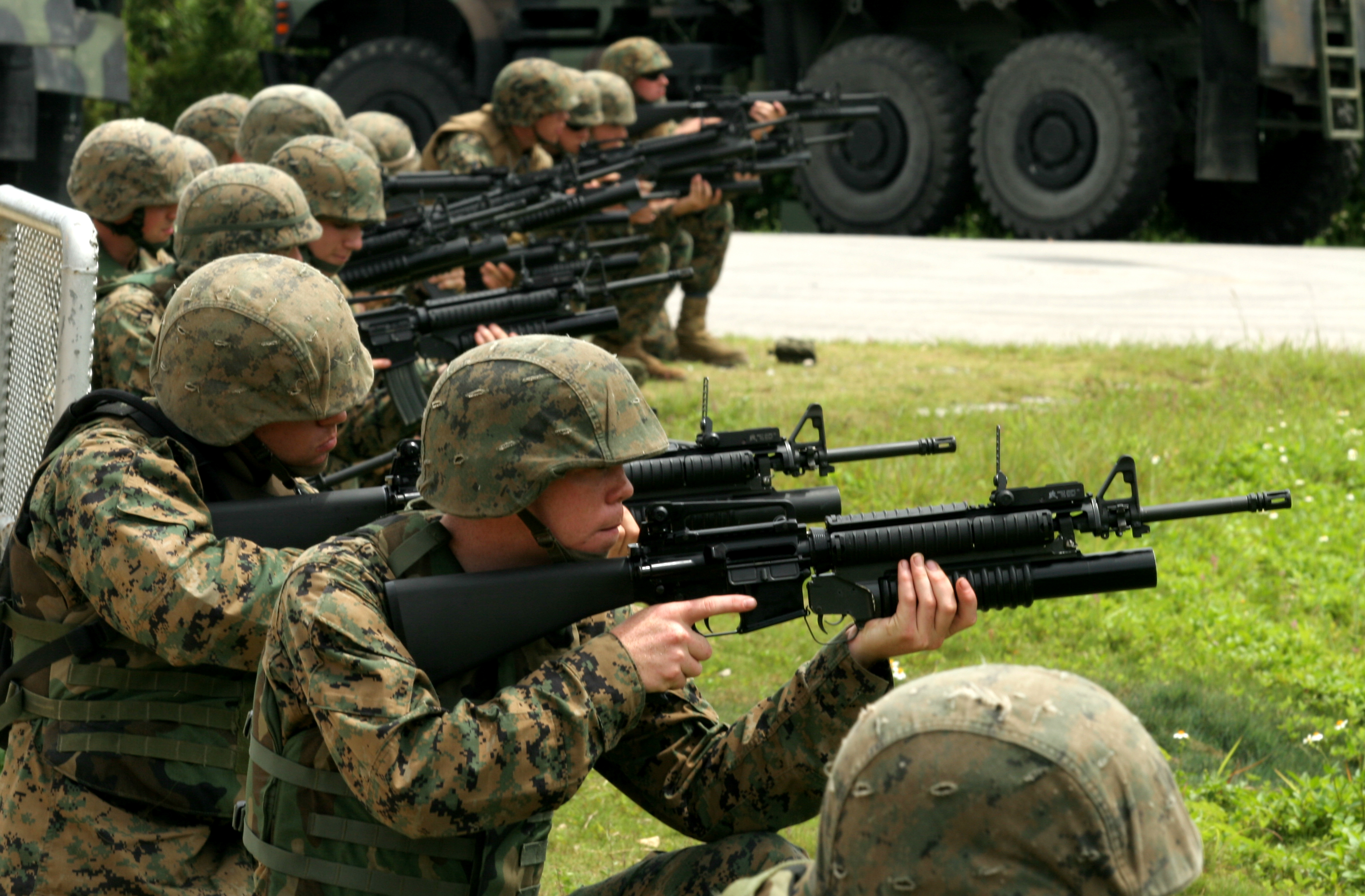 Marines and sailors use M-203 40 mm grenade launchers to fire rounds May 16 in Central Training Area. More than 60 Marines and sailors took part in a training evolution aimed at providing the headquarters element with familiarization of the M-203. The service members are with Headquarters Battery, 12th Marine Regiment, 3rd Marine Division. Photo by: Lance Corporal Scott M. Biscuiti Photo ID: 20065251710 Submitting Unit: Marine Corps Base Camp Butler Photo Date:05/16/2006